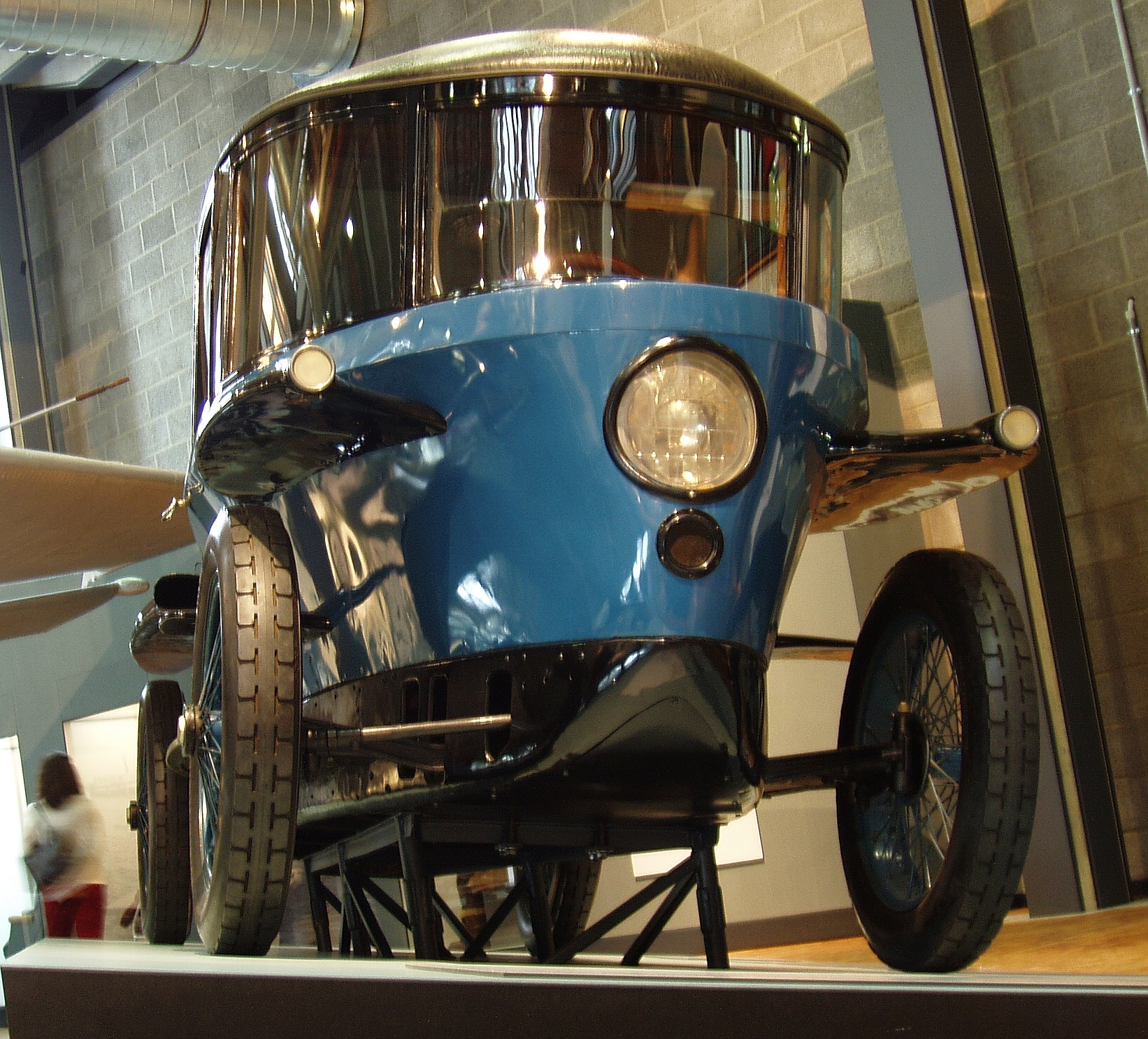 This is the car model that earned immortal fame, though no commercial success, by starring in Fritz Lang's Metropolis. I think. Taken in Deutsches Technikmuseum Berlin. Here is a photo of another copy of the same car.